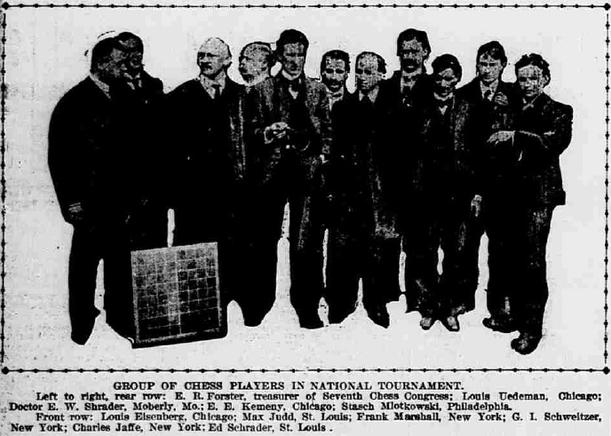 GROUP OF CHESS PLAYERS IN NATIONAL TOURNAMENT. Left to right, rear row: E.R. Forster, treasurer of Seventh Chess Congress; Louis Uedeman, Chicago; Doctor E.W. Shrader, Moberly, Mo.; E.E. Kemeny, Chicago; Stasch Mlotkowski, Philadelphia. Front row: Louis Eisenberg, Chicago; Max Judd, St. Louis; Frank Marshall, New York; G.I. Schweitzer, New York; Charles Jaffe, New York; Ed Schrader, St. Louis.